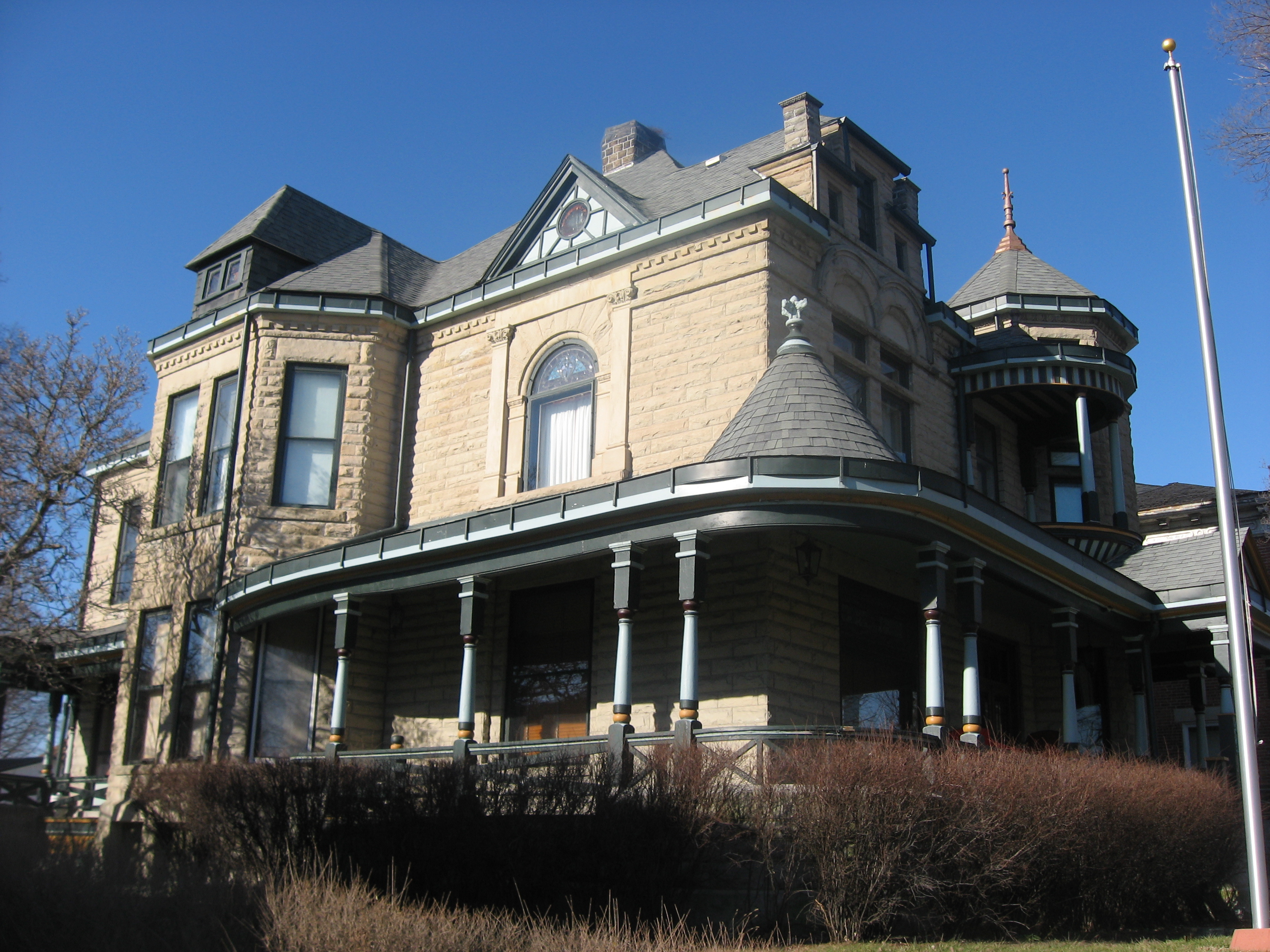 Front of the Jacob Parrott House (now the Hardin County Historical Museum), located at 223 N. Main Street in Kenton, Ohio, United States. It is part of the North Main-North Detroit Street Historic District, a historic district that is listed on the National Register of Historic Places.